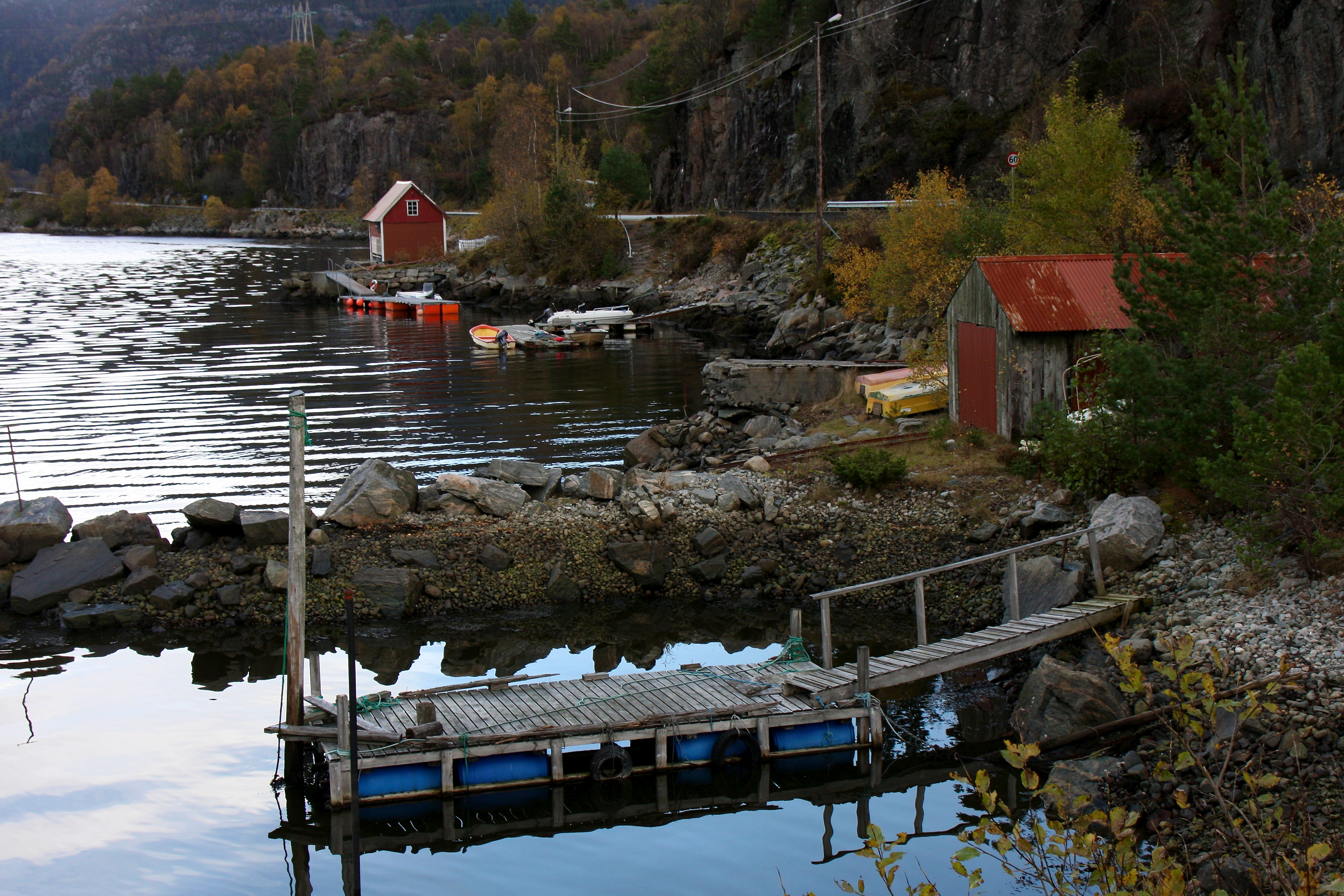 Gulen municipality, Norway.